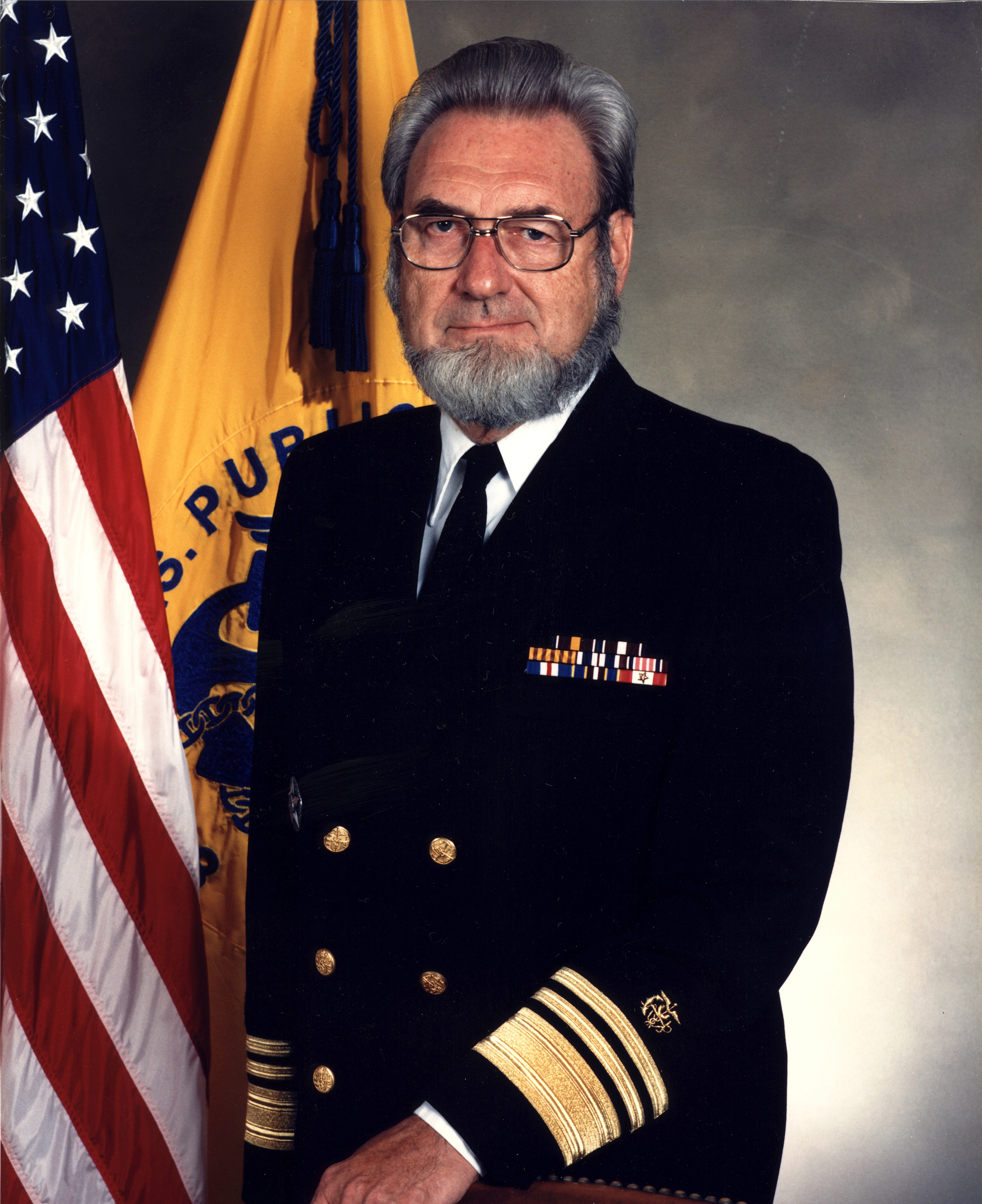 In this portrait Dr. Koop wears his formal uniform and sits in front of the American flag and the flag of the U.S. Public Health Service. Koop was the first U.S. Surgeon General in a generation to wear the Surgeon General's uniform, a uniform akin to that of a rear admiral of the Navy. He thought that wearing the uniform would help to restore morale and a sense of dignity to the Commissioned Corps of the U.S. Public Health Service, which the Surgeon General commands and which had been buffered by personnel cuts and uncertainty about its mission in the late 1970s and early 1980s.